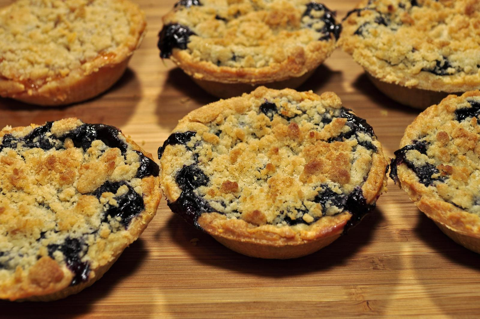 Miniature blueberry pies link